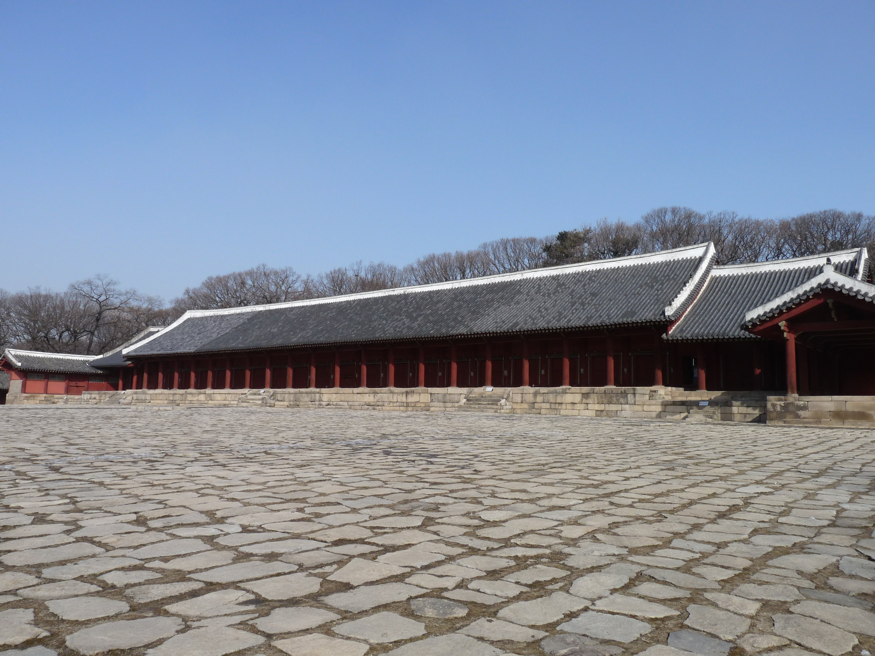 Main hall of Jongmyo royal ancestral shrine